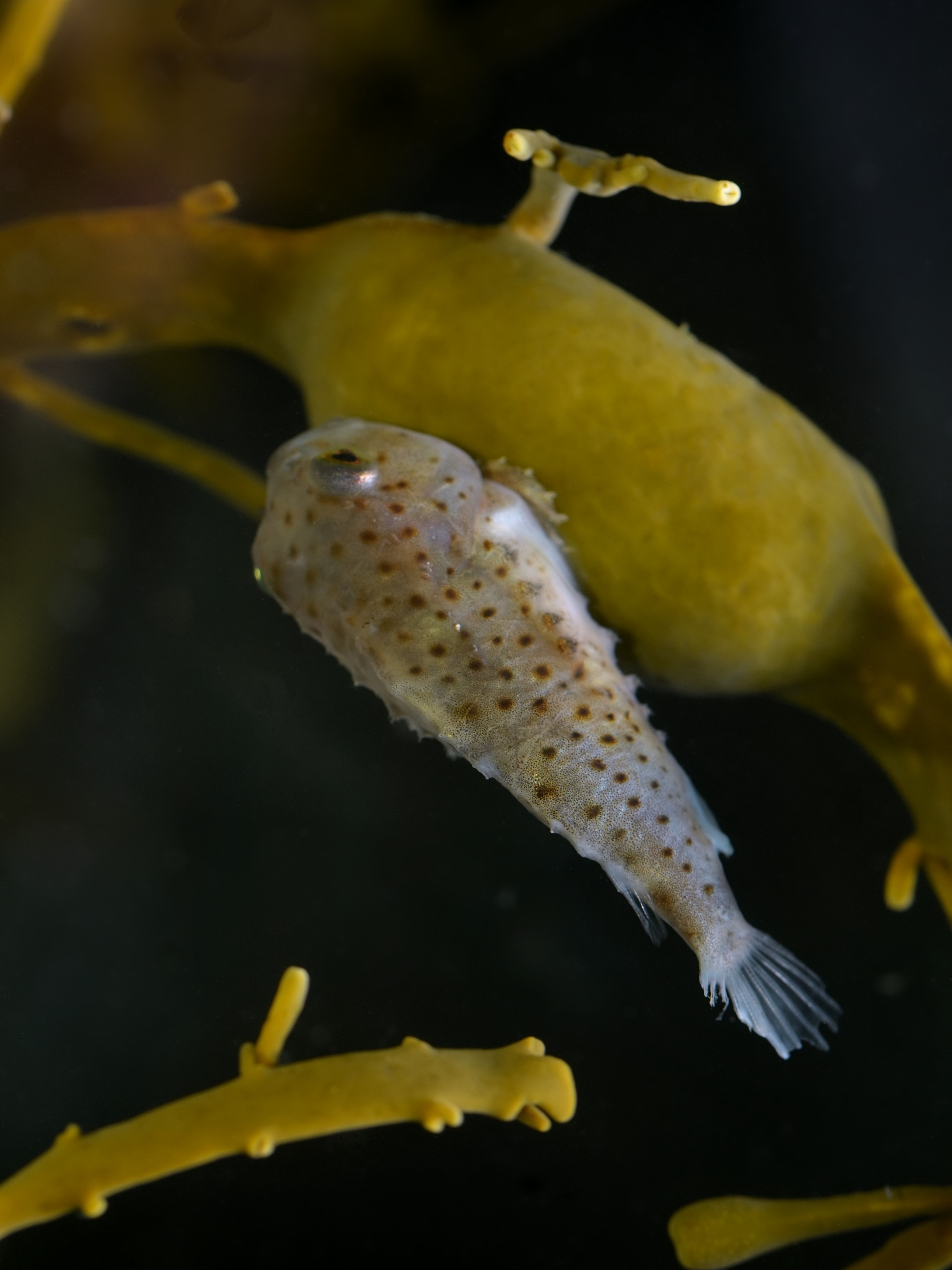 Juvenile lumpfish from the Belgian part of the North Sea on Ascophyllum nodosum